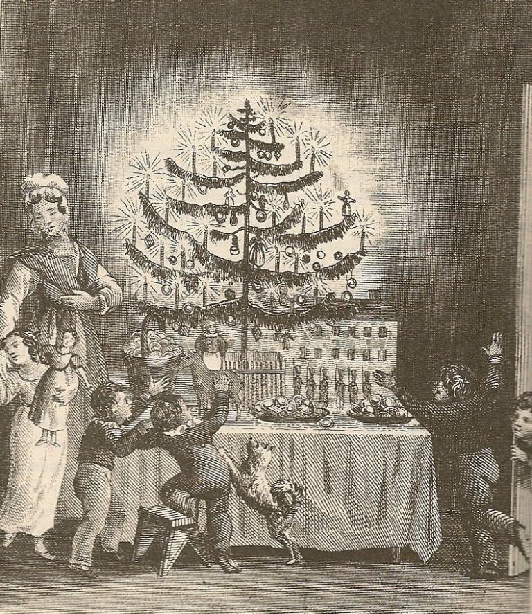 First published image of a Christmas tree, frontispiece to Hermann Bokum's 1836 "The Stranger's Gift".